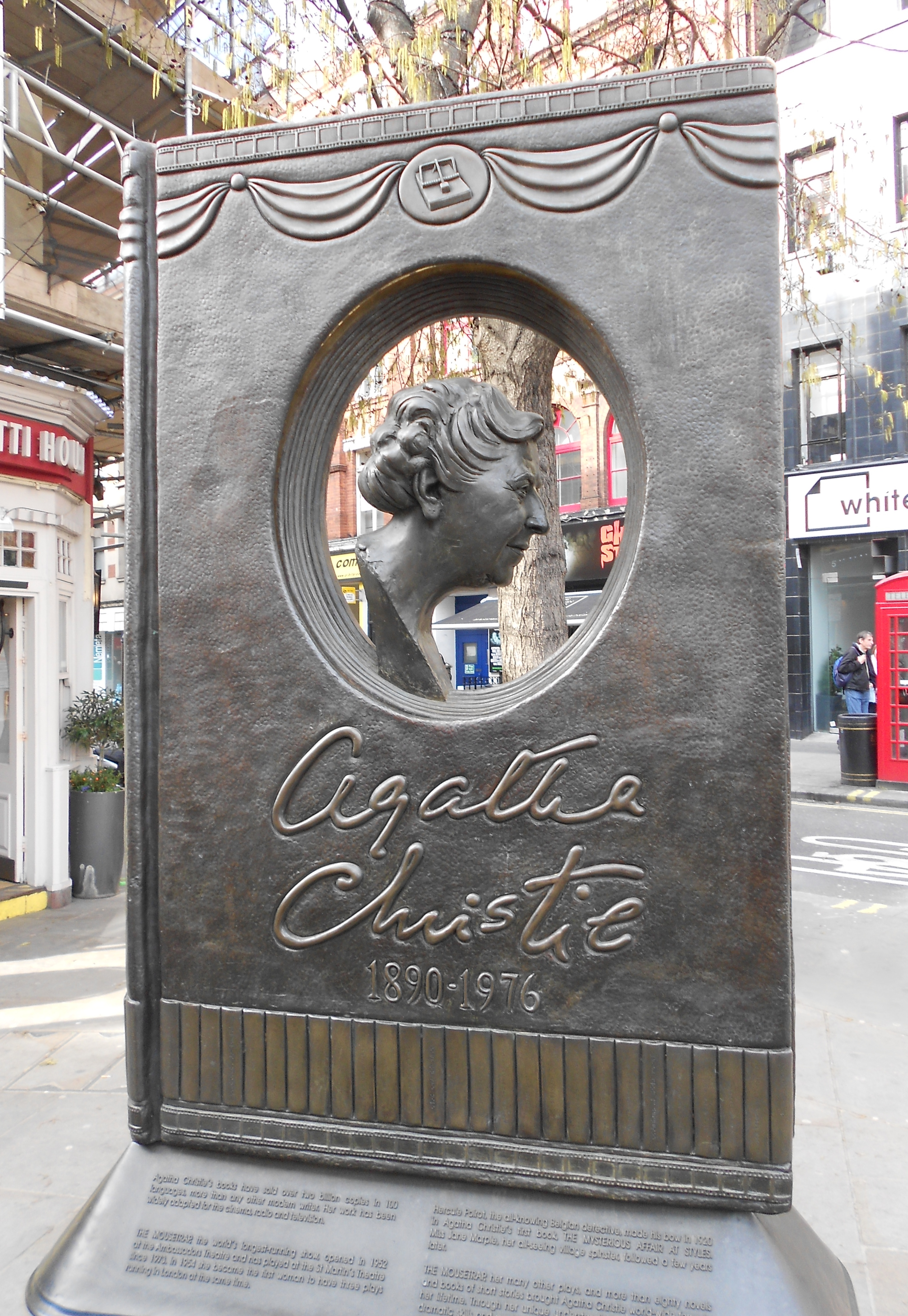 Denkmal für Agatha Christie Great Newport Street Ecke Cranbourn Street, London West End of London